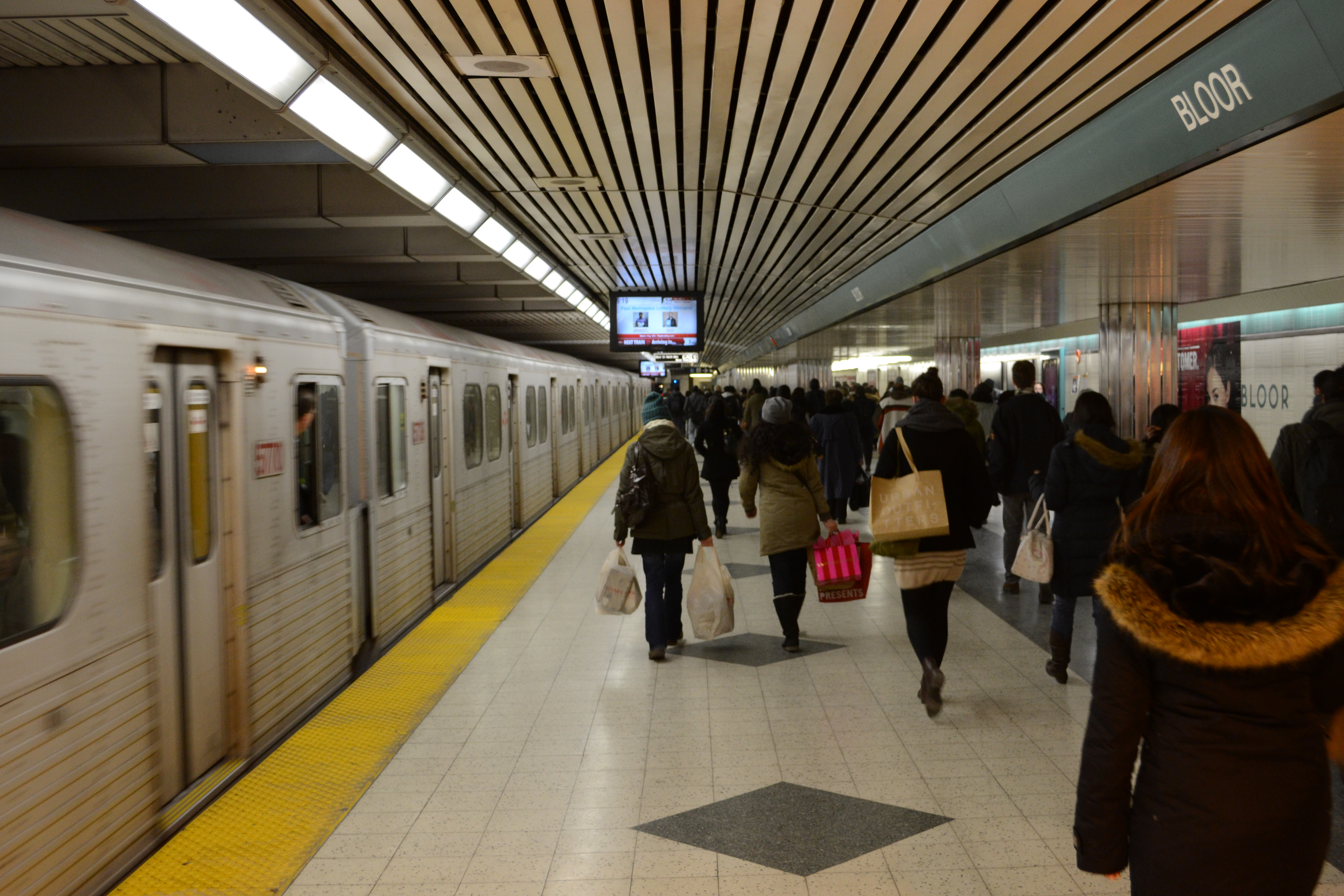 Bloor TTC subway station